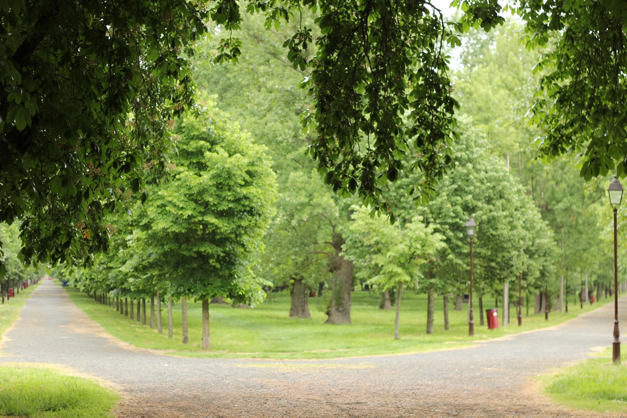 One of the many parks of Burgos, El Parral is located near the UNiversity of Burgos campus and the Hospital del Rey